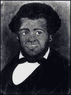 Portrait of Absalom Boston